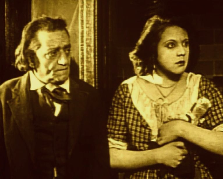 Cesare Gravina and Malvina Polo in the film Foolish Wives - cropped screenshot